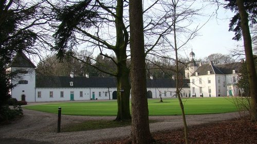 Castle Wisch at Terborg (Netherlands)